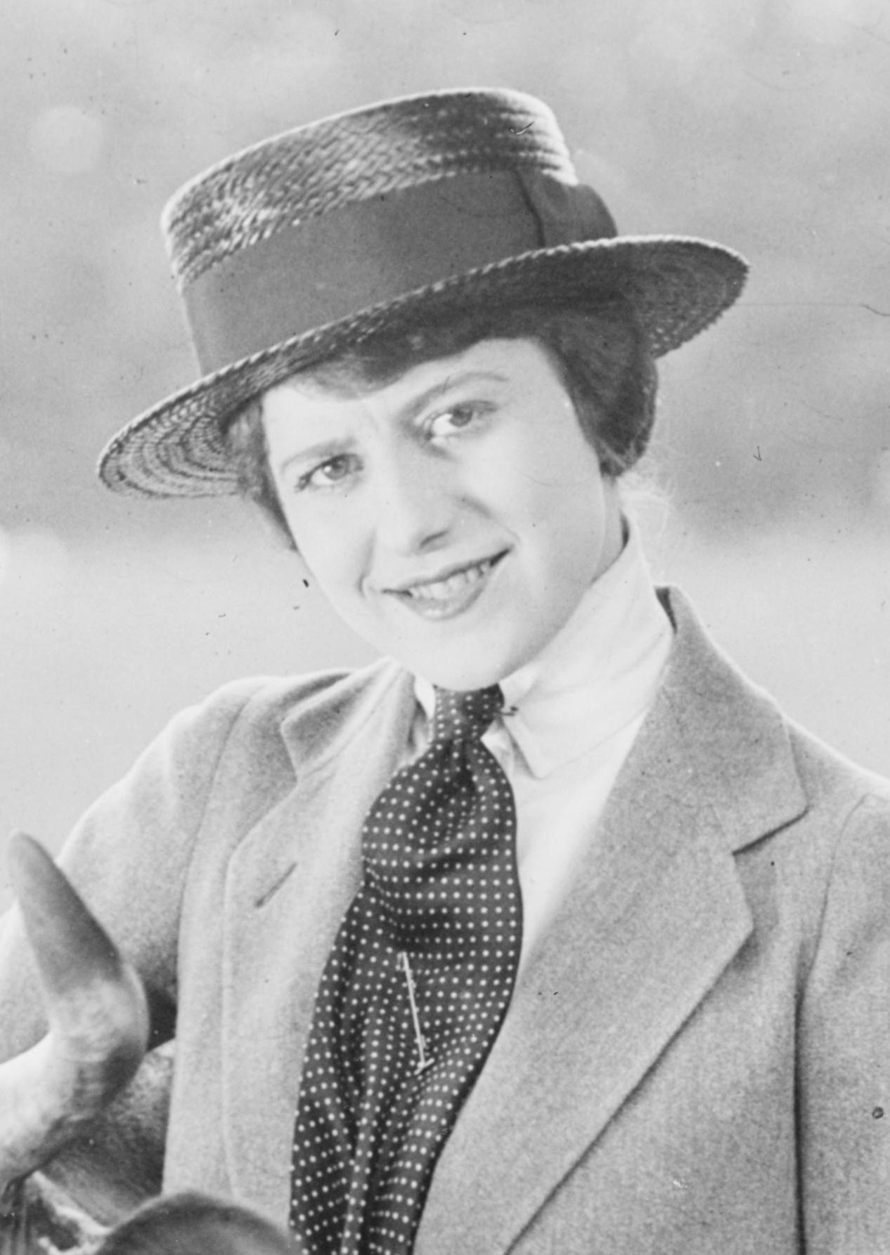 Alice Calhoun